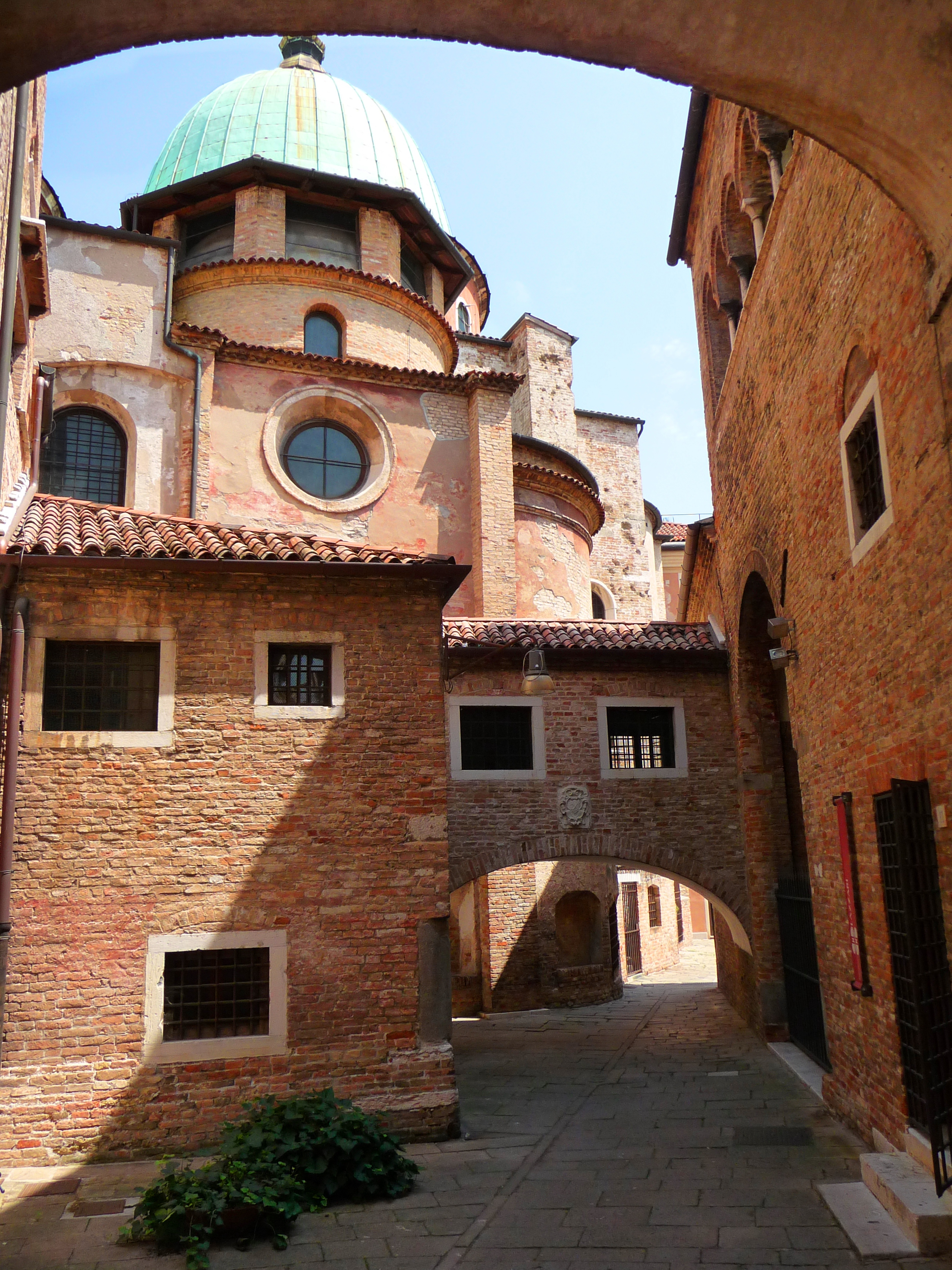 vicolo Duomo in Treviso (IT)